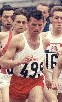 Josef Odložil running the 1,500 m final at the National Stadium during the Tokyo Olympic on October 21, 1964 in Tokyo, Japan.